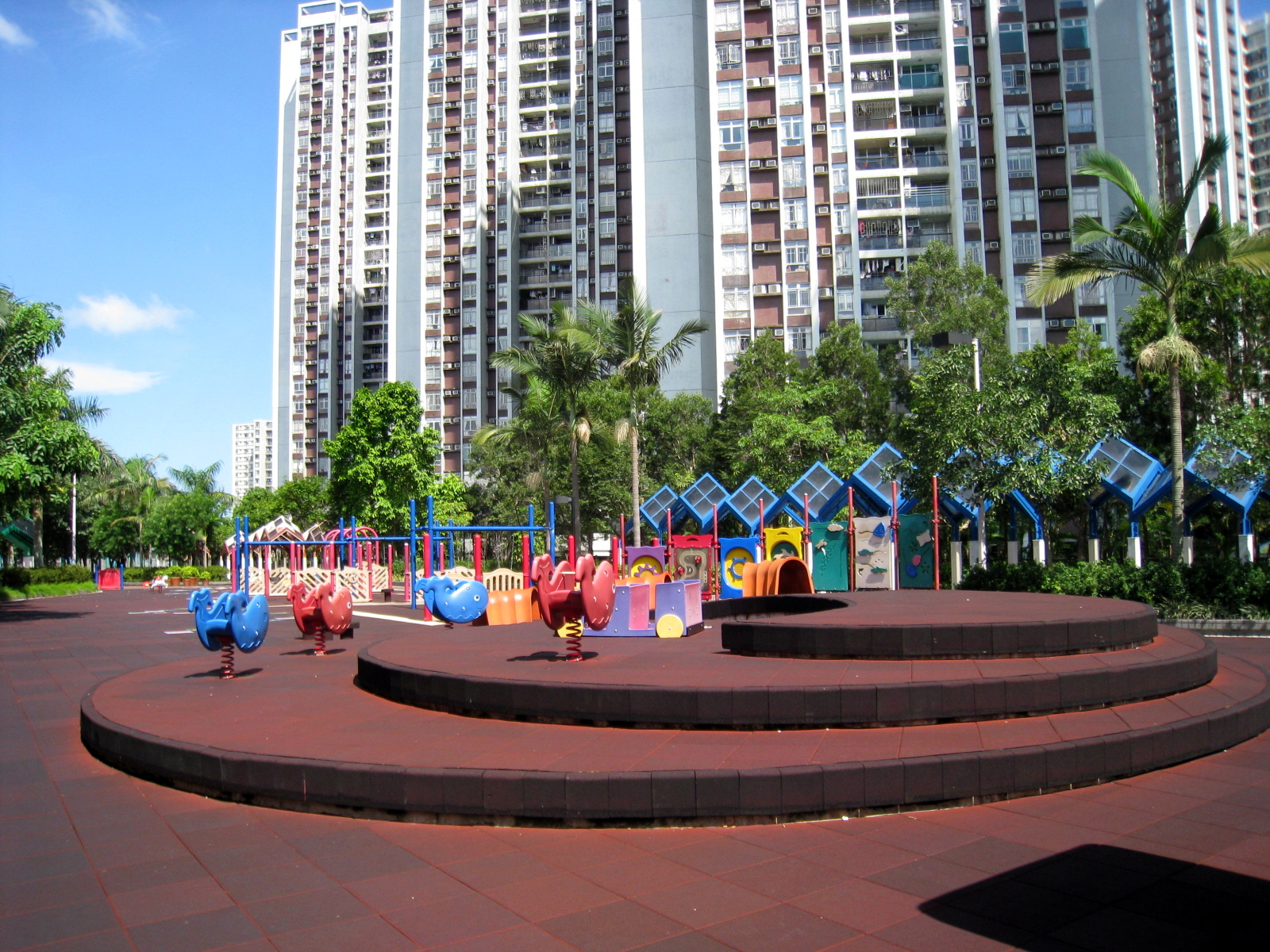 Quarry Bay Park Phase1 Playground